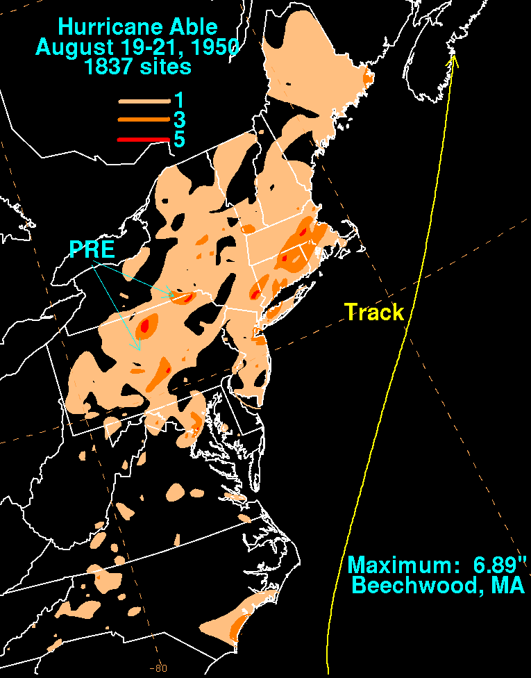 Storm total rainfall map of Hurricane Able during August 1950.